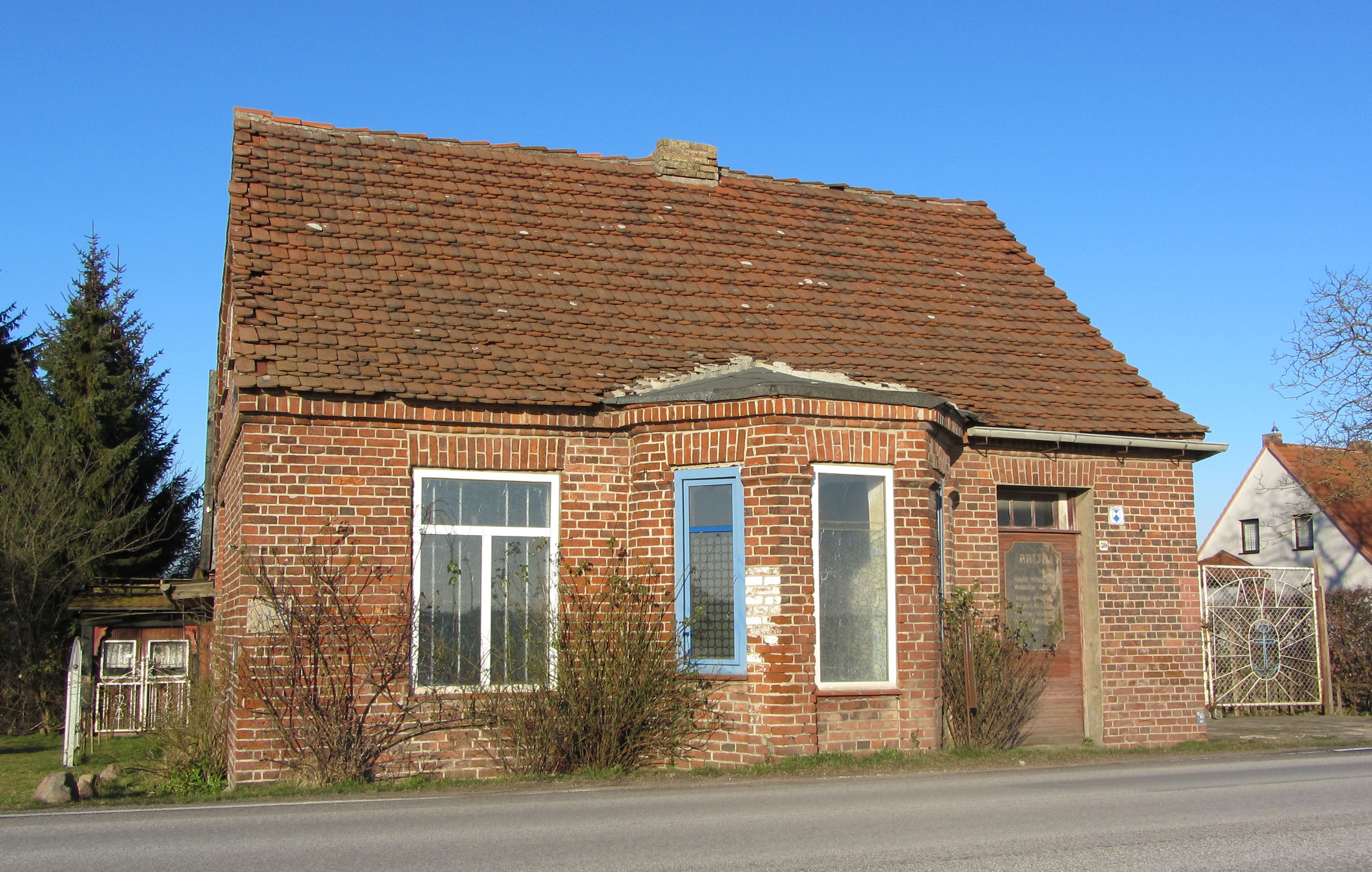 Former street workers home at federal road b 105 in Mallentin, district Nordwestmecklenburg, Mecklenburg-Vorpommern, Germany